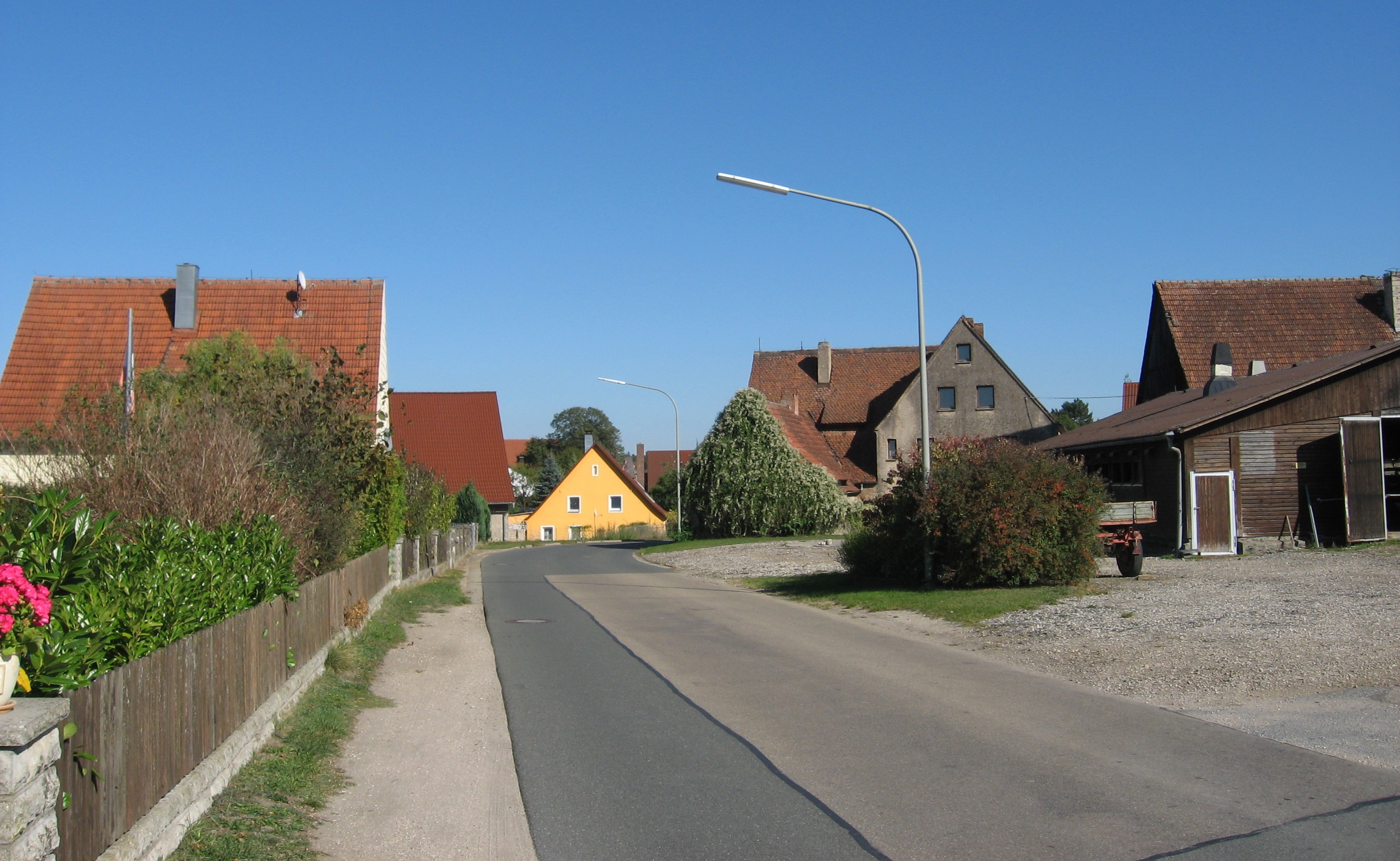 Pruppach (part of Pyrbaum, Bavaria, Germany), West